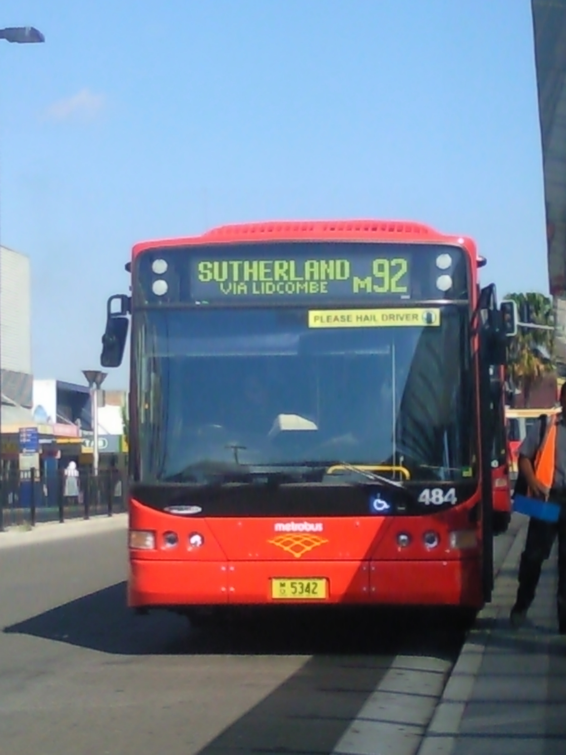 Metrobus route M92 at Bankstown Railway station.